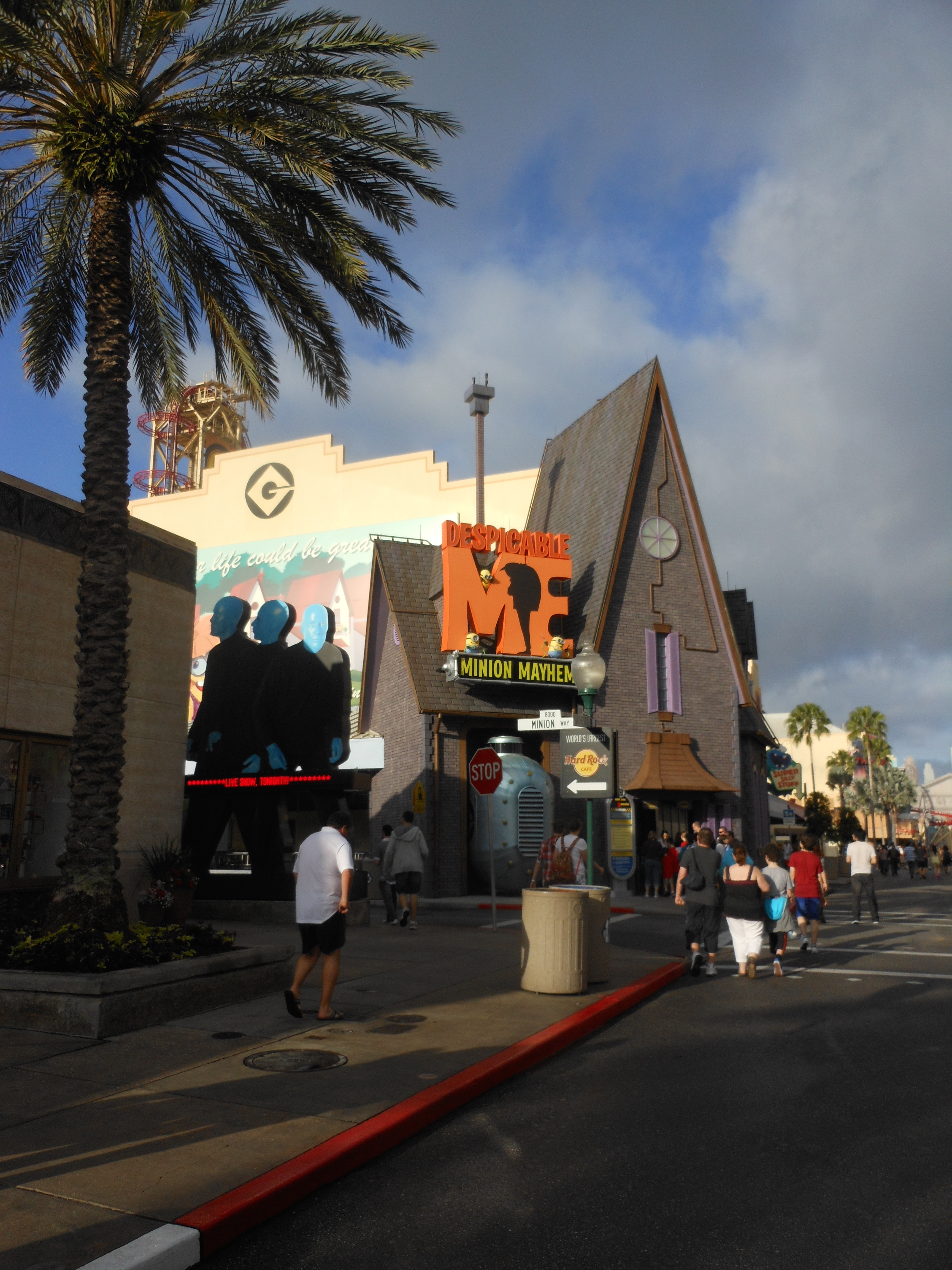 Despicable Me ride simulator in Universal Studios theme park, Orlando Florida